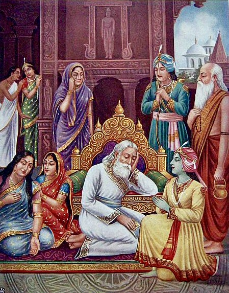 King Dasharatha grieves inconsolably at his obligation to banish Rama to the forest (bazaar art, c.1930's?)